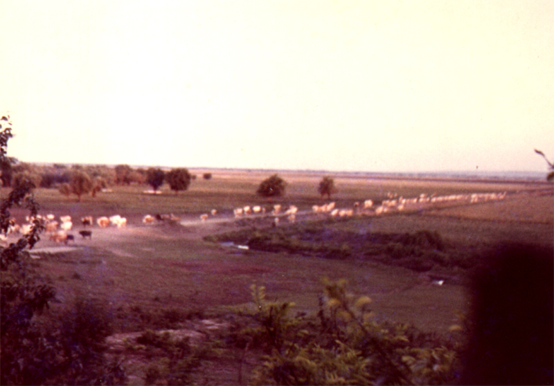 Cows on pasture, in Skorenovac, (heading home every day at 6pm).